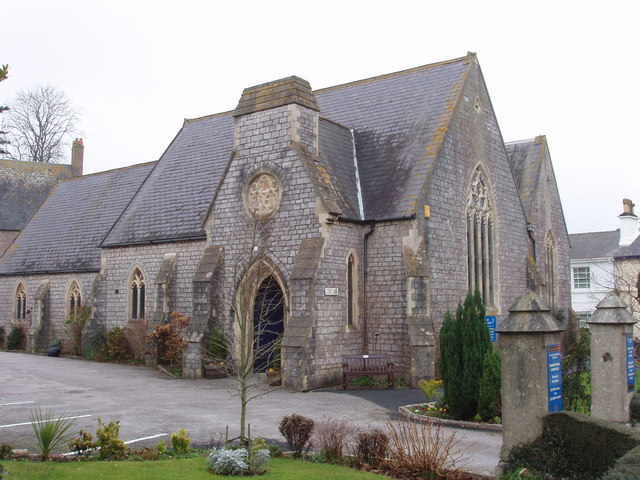 Furrough Cross United Reformed Church, Babbacombe On Babbacombe Road.